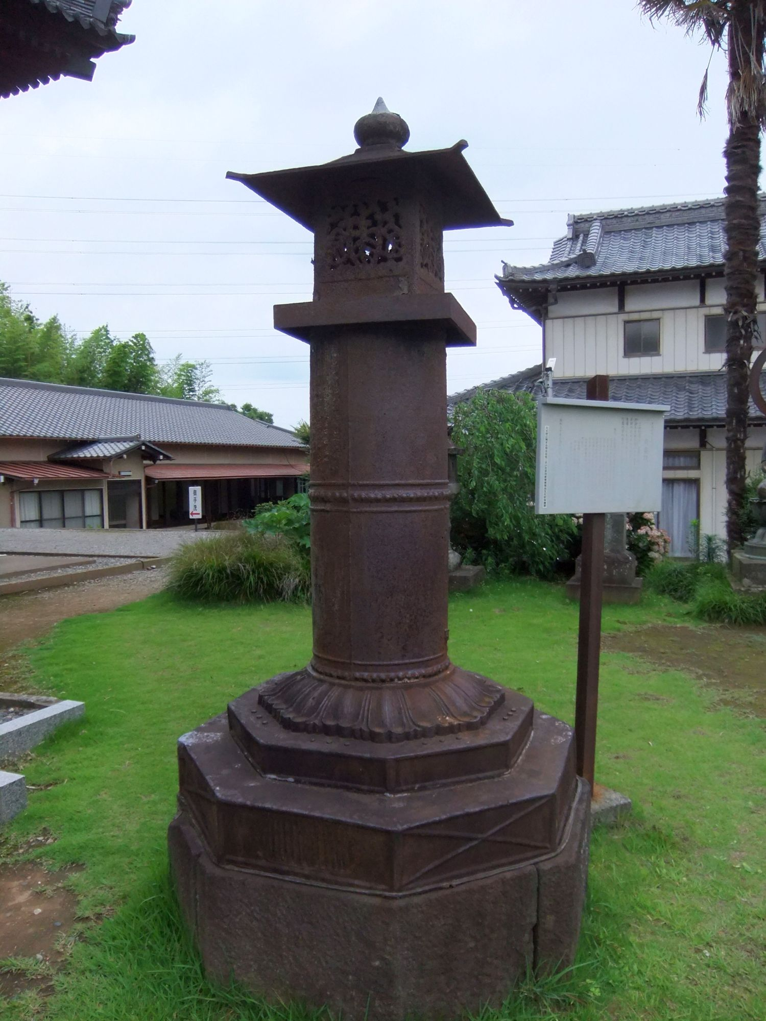 Tōrō (lantern) made of iron at Jion-ji temple in Iwatsuki-ku, Saitama